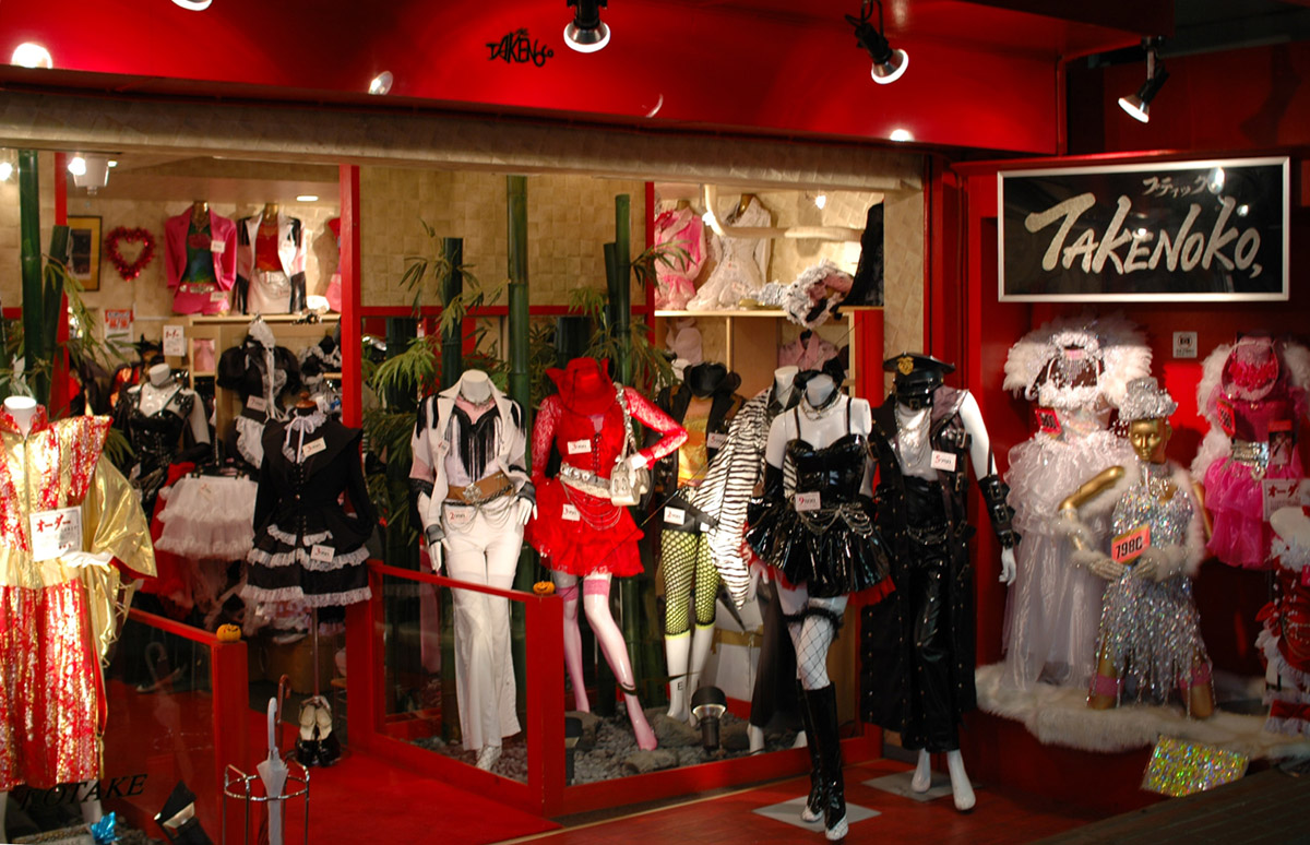 Night in Boutique Takenoko.